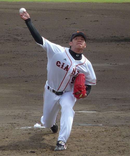 YG-Chih-Lung-Huang20100829